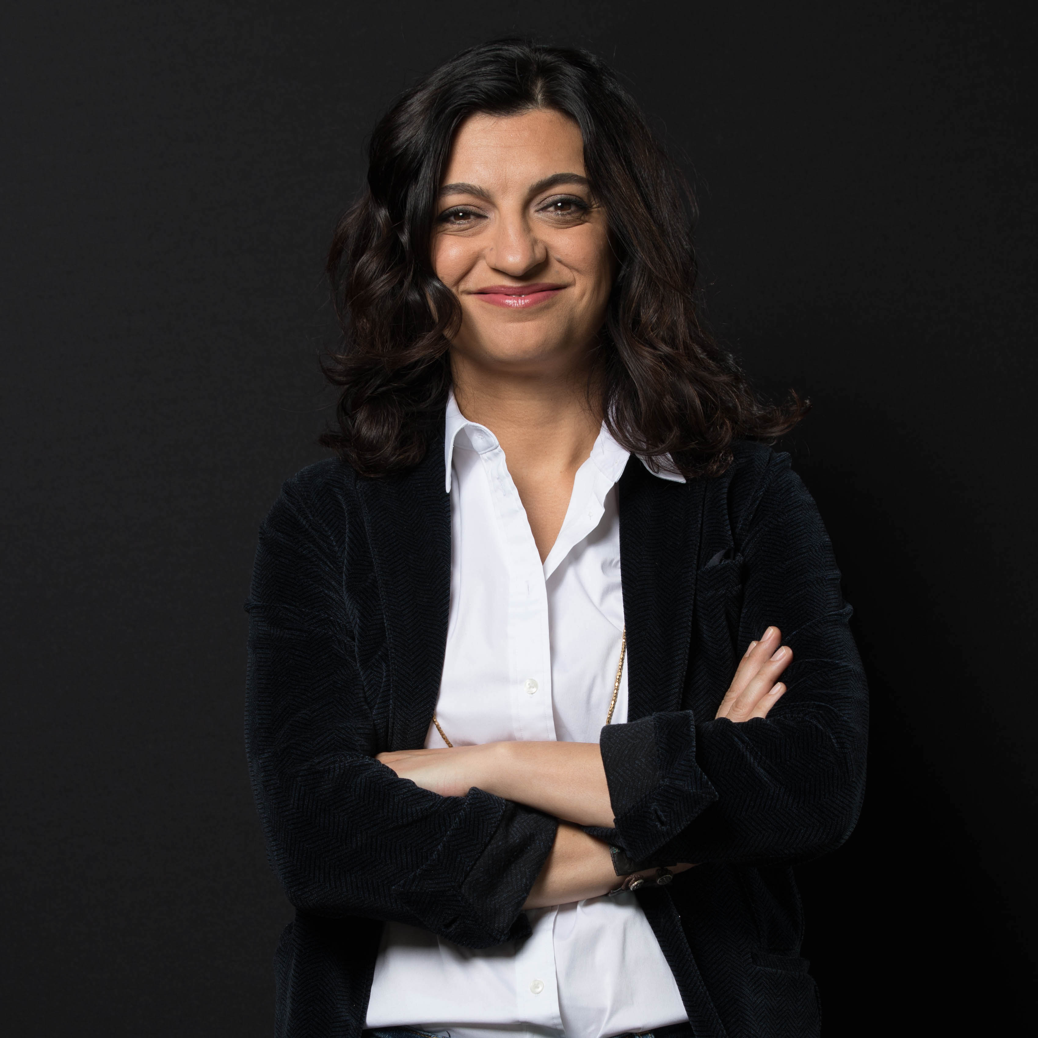 Firuzeh Mahmoudi is the founder and director of United for Iran, an independent nonprofit based in San Francisco that advocates for civil liberties in Iran.